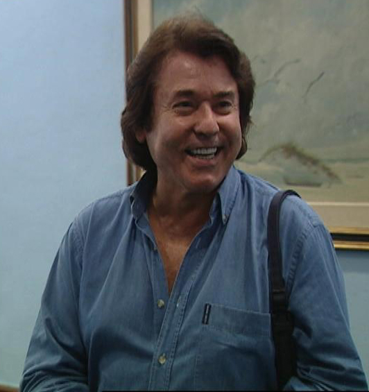 Raphael (spanish singer) in Asturies (Spain)